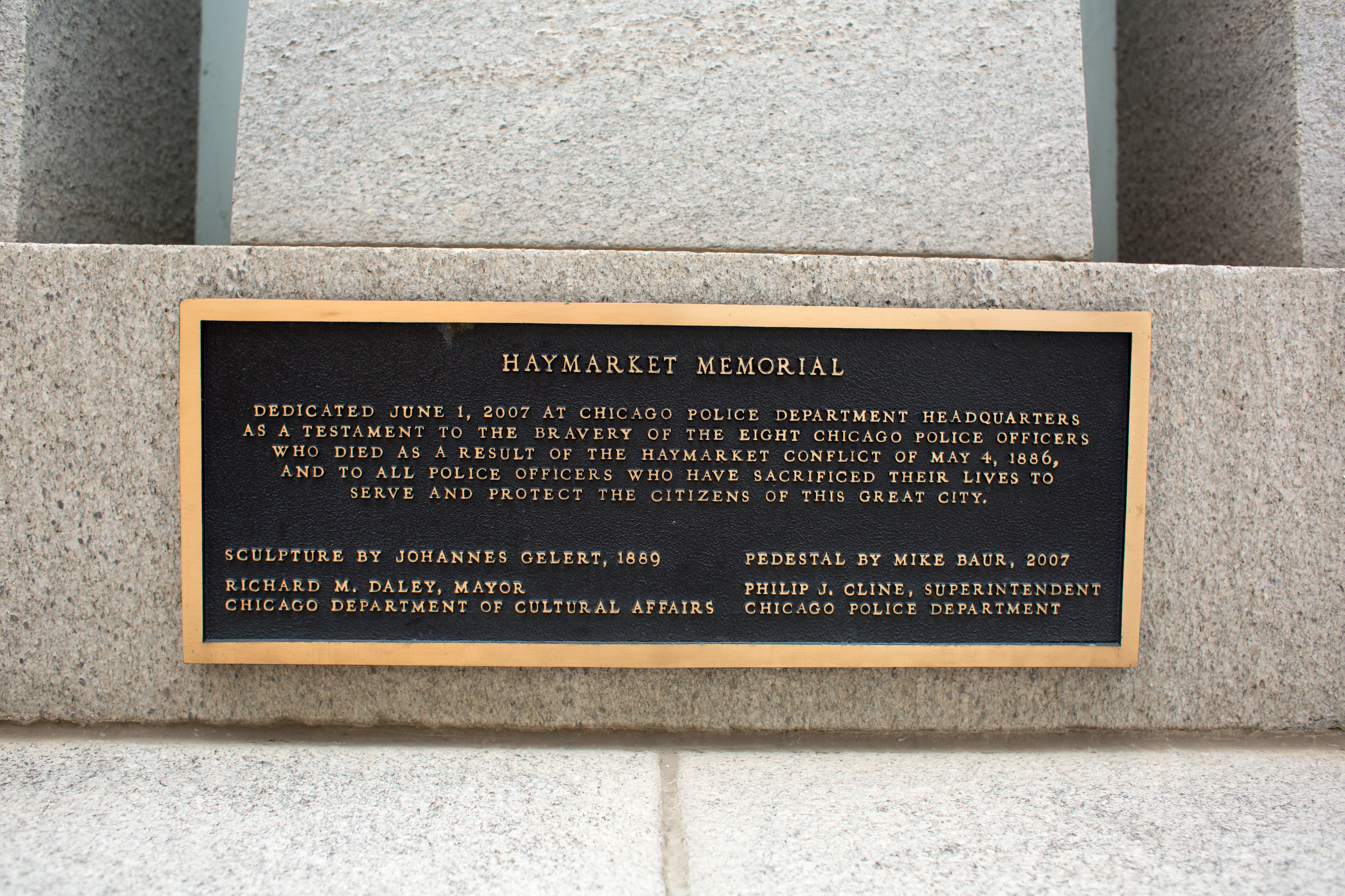 Haymarket Monument Bronzeville, Chicago 2015